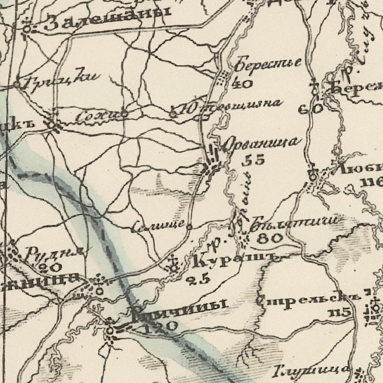 Village Sokhy on the map "Специальная карта Западной части Российской Империи, составленная и гравированная в 1/420000 долю настоящей величины при Военно-Топографическом Депо, во время управления генерал квартирмейстера Нейдгарта под руководством генерал-лейтенанта Шуберта" (known as "Schubert's map"), 1826-1840.